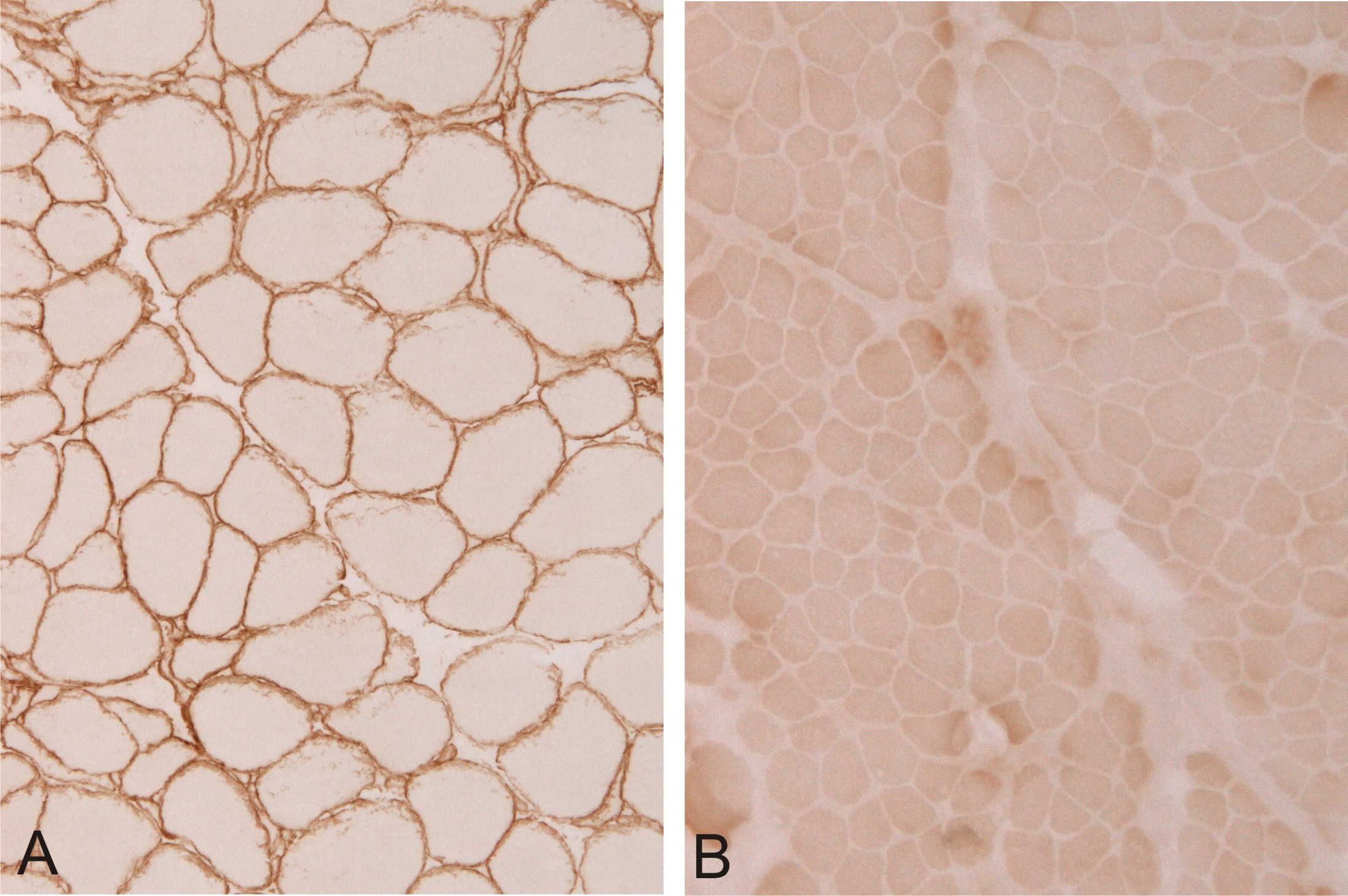 Immunohistochemistry for alpha-sarcoglycan in A) normal muscle, B) LGMD2D (adhalin deficiency)